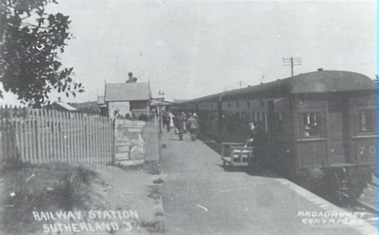 Information: Sutherland Railway Station, view looking down platform with train waiting, ca. 1920s. This train was typical of the steam services on the line before electric services were introduced in 1926. Uploaded by: JROBBO Source: Sutherland Shire Council - According to the record of this photograph, this page, this photograph was taken in the 1920s. Since this is a photograph taken before 1955, I believe it qualifies as public domain.